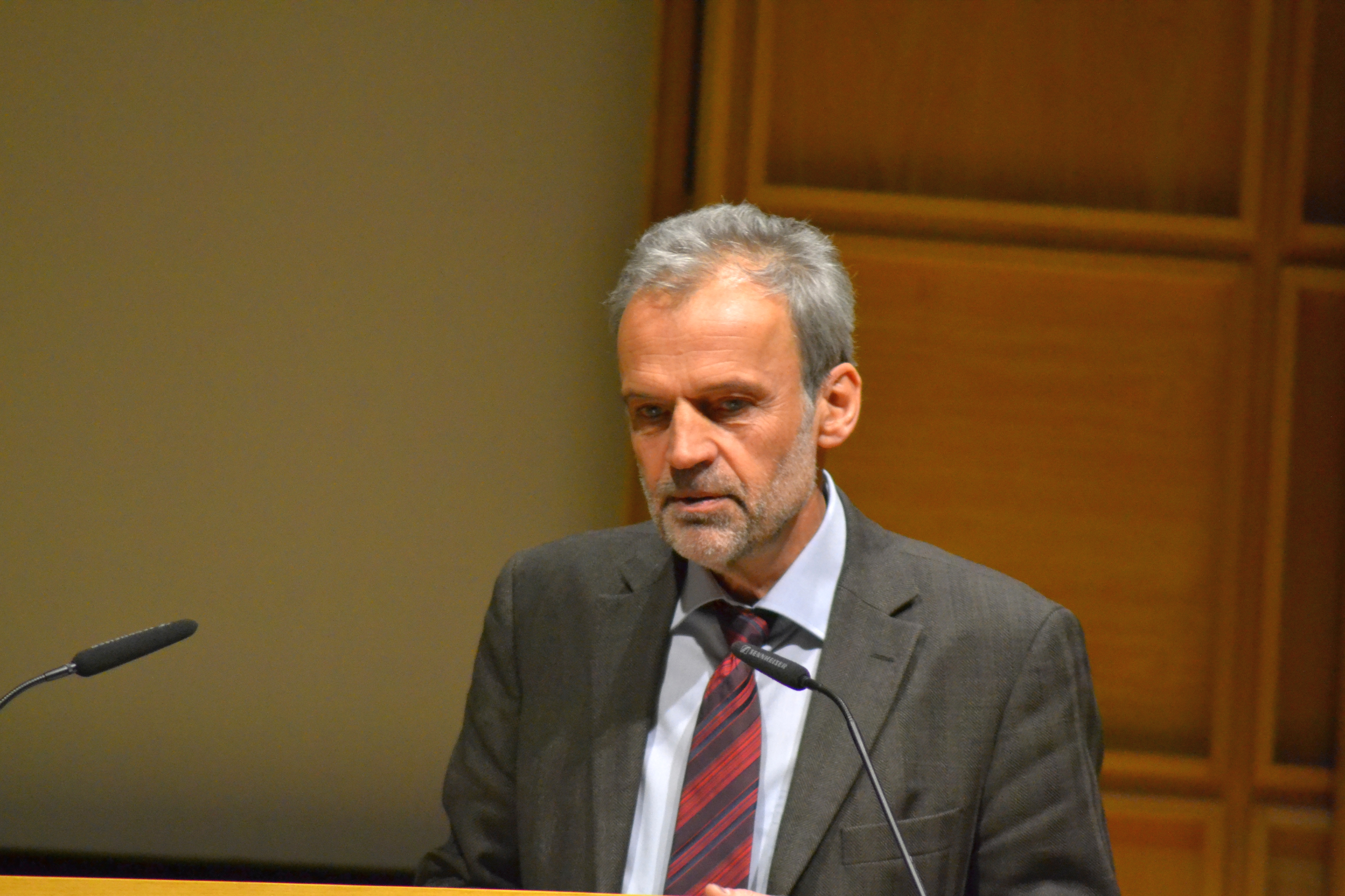 Conference "Die Zukunft der Wissensspeicher: Forschen, Sammeln und Vermitteln im 21. Jahrhundert" ("Future of the knowledge stores") of the University of Konstanz with the Gerda Henkel Stiftung at the Nordrhein-Westfälischen Akademie der Wissenschaften und Künste in Düsseldorf on 5th and 6th of March 2015.